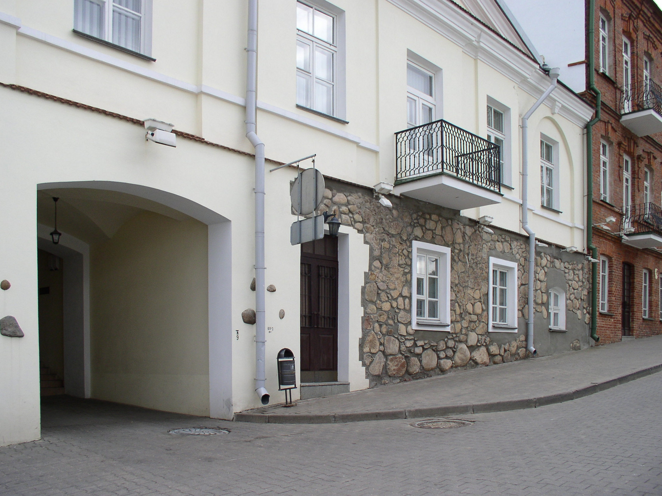 Hyertsen street, 4. Minsk, Belarus.